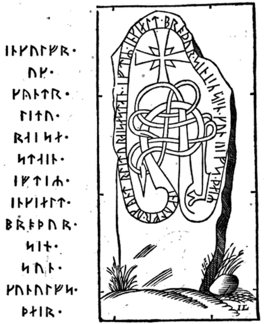 Runestone U 974